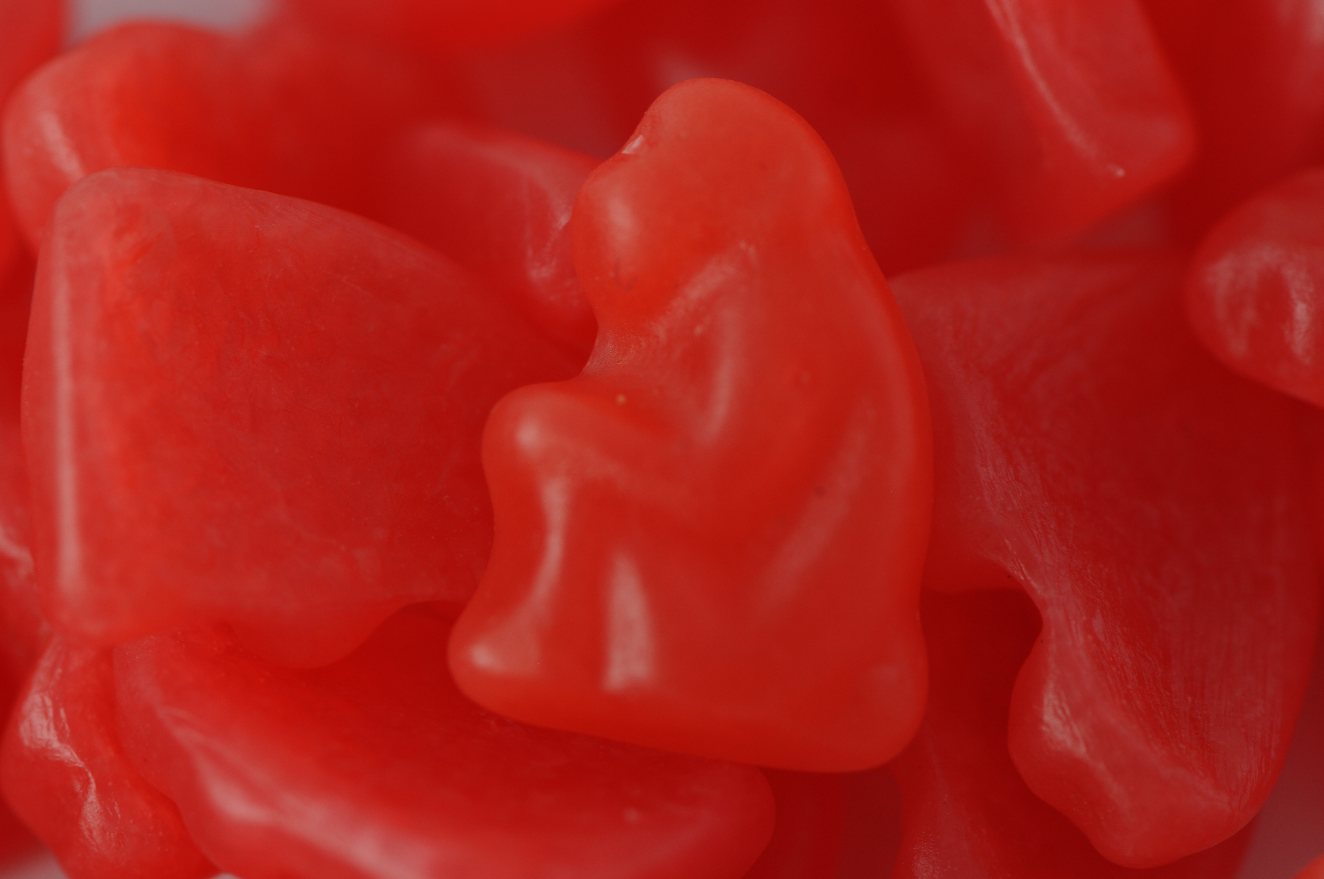 "Zoo" candy from Malaco candy brand